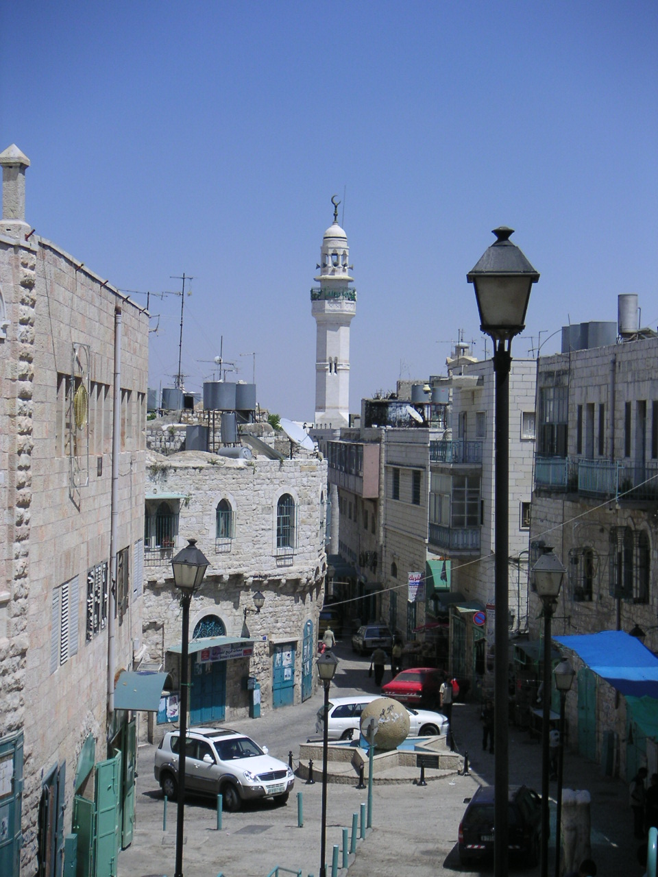 Photo: Soman